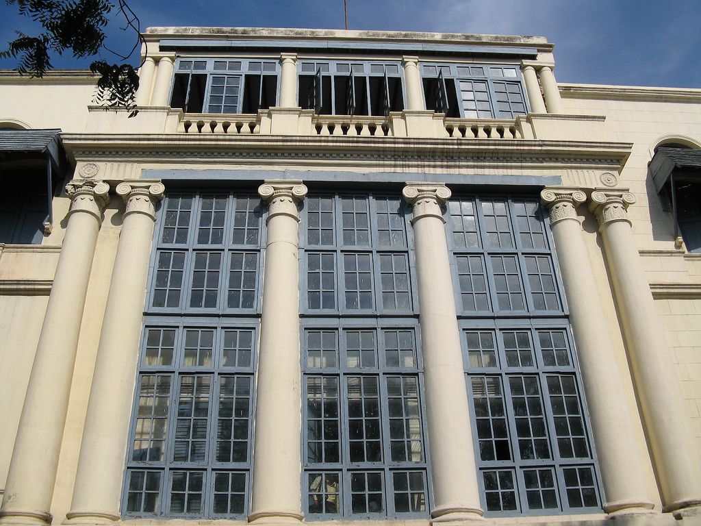 This is the ballroom in the Clive House, where exhibitions are held today. The floor is made of teak wood, with presence of thick glasses made by a glassmaker from London.